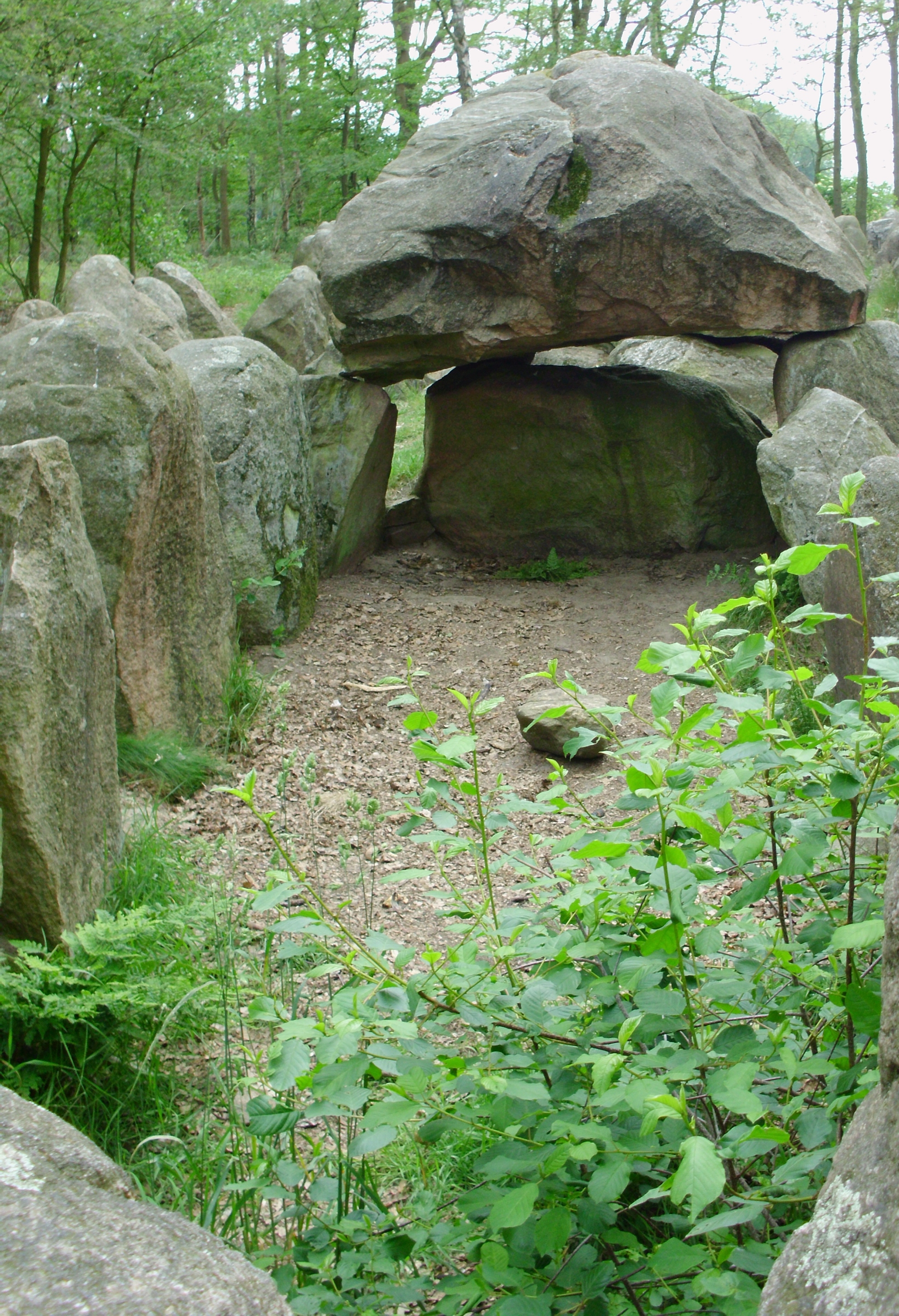 Burial chamber II of passage grave II of the Kleinenknetener Steine